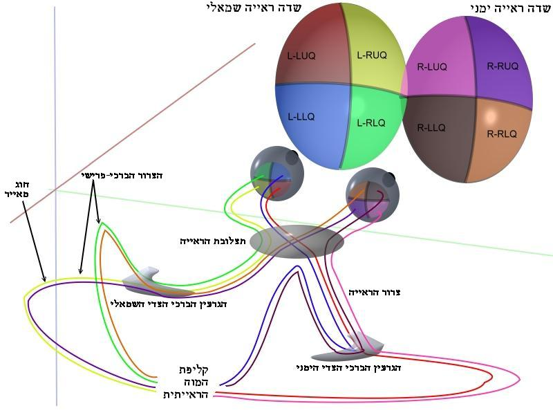 This image schematically represents optic pathways from each of the 4 quadrants of view for both eyes simultaneously. It is a pseudo-3D image based on several 2D text book descriptions. I have combined these to represent both sagittal and coronal planes in one image.